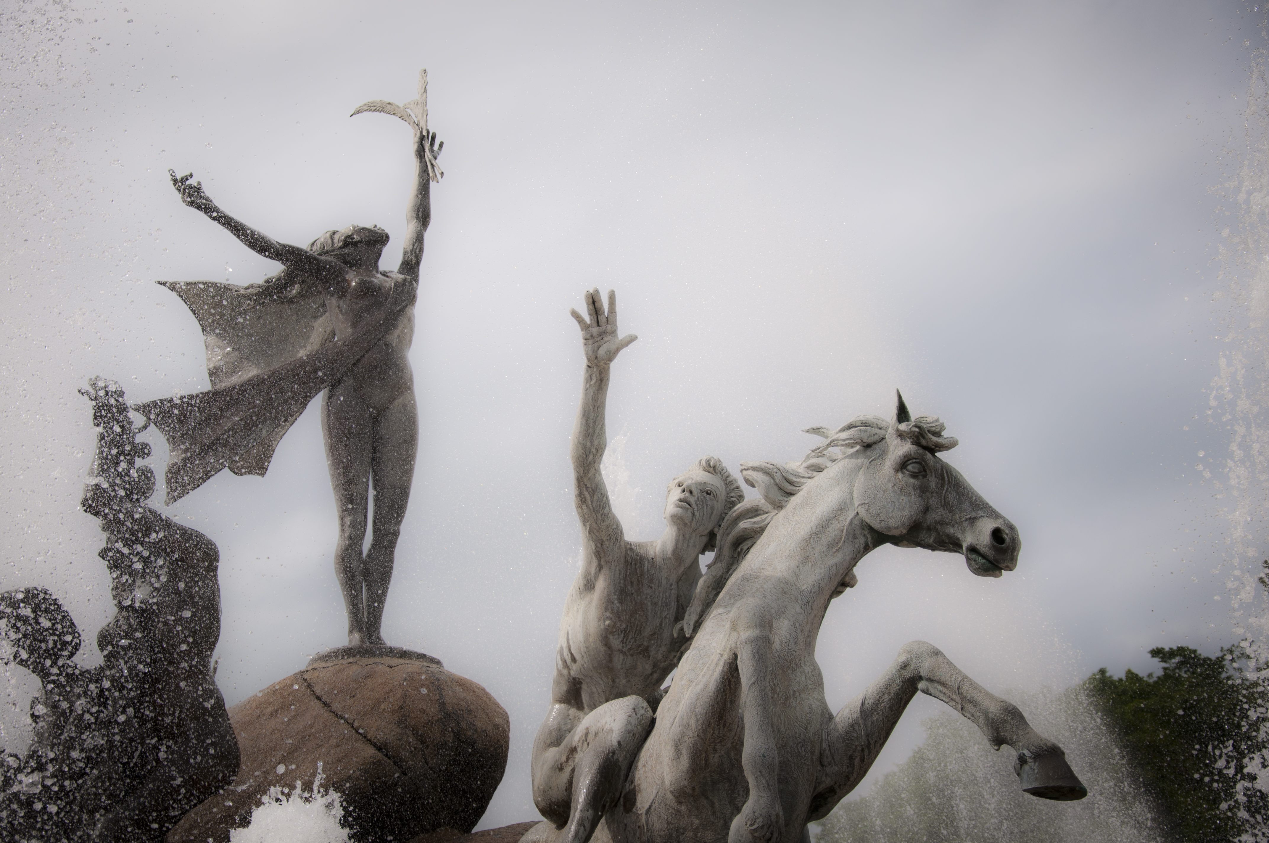 Detail of Raices fountain in Old San Juan